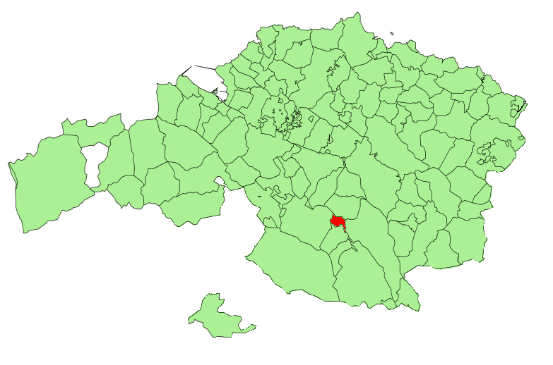 Arantzazu municipality in the province of Biscay